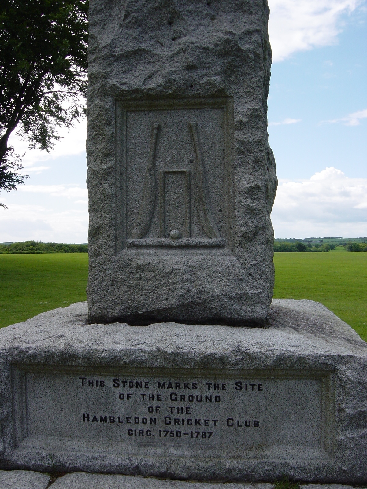 Ben Shade,Own Picture